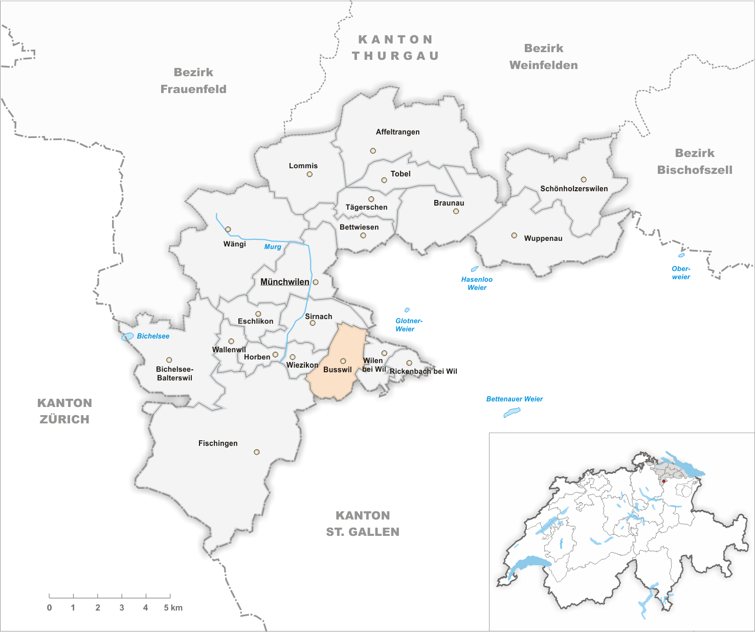 Municipality Busswil